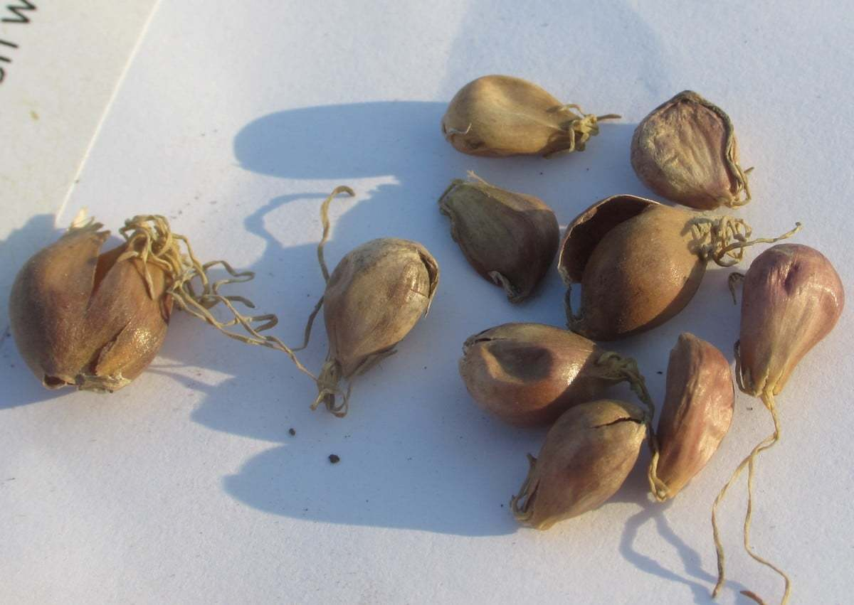 Allium scorodoprasum bulbs